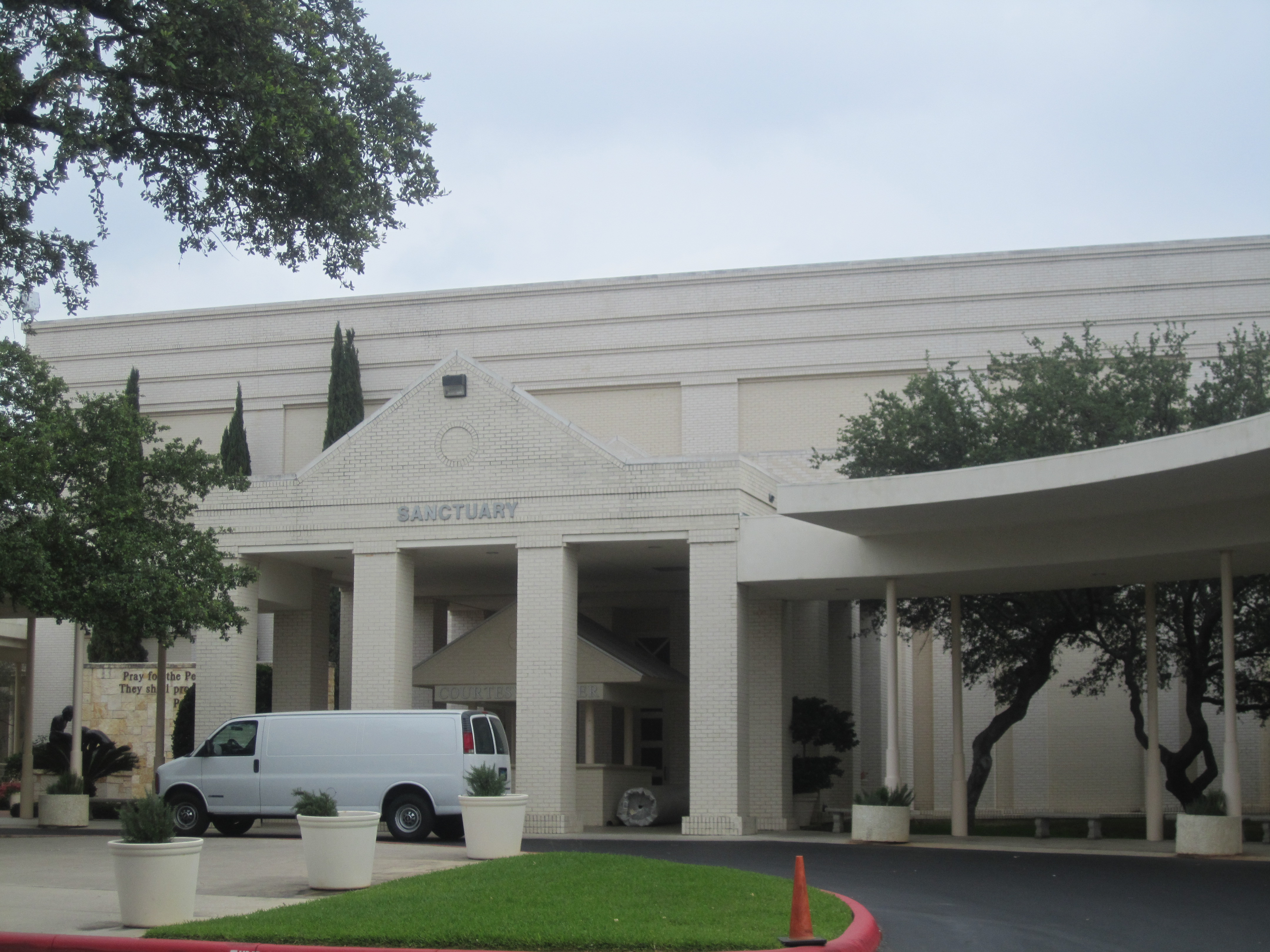 I took photo with Canon camera in San Antonio, TX: Cornerstone Church sanctuary.